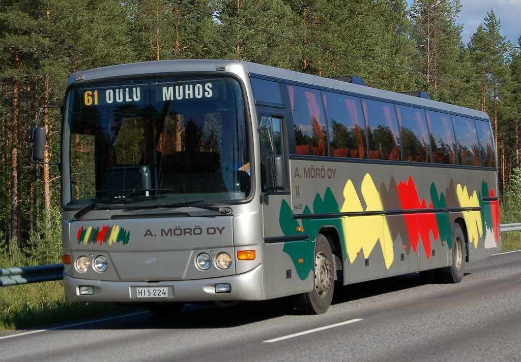 A. Mörö Oy bus number 14 (Scania K114, Lahti Flyer 520, HIS-224, 1999) on line 61 (Oulu-Päivärinne-Muhos) in Saarela district, Oulu, Finland.